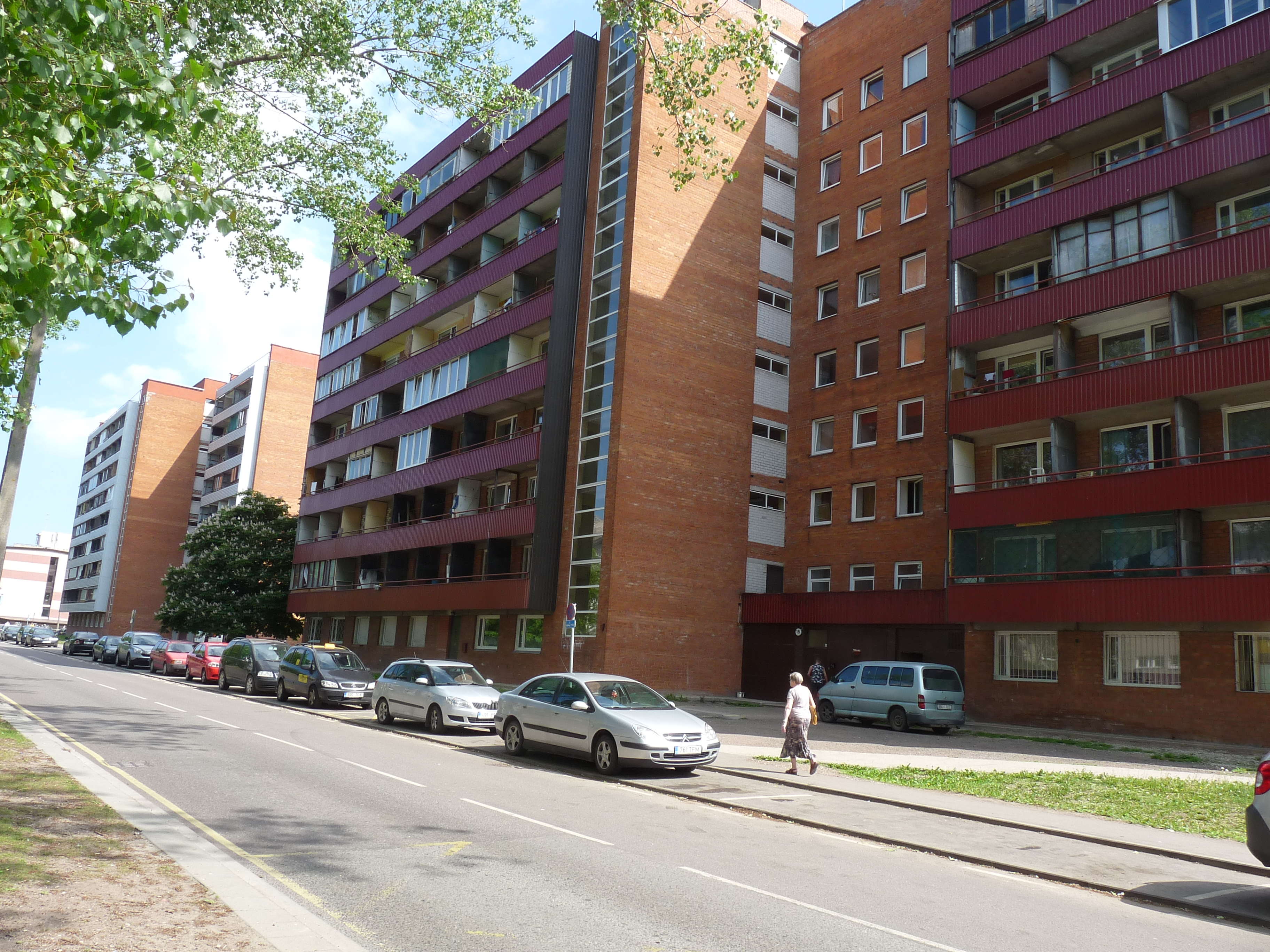 Randla street in Tallinn, Estonia